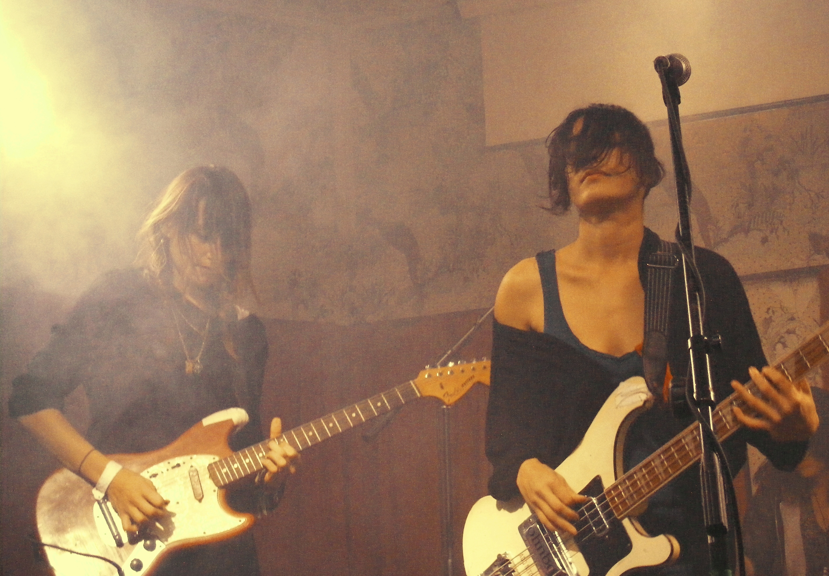 Warpaint peforming live at the Deaf Institute in Manchester, United Kingdom on October 25, 2010.